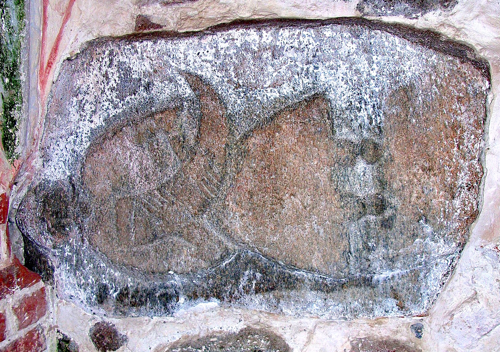 the Svantevit-Stone in the church in Altenkirchen on the island Rügen